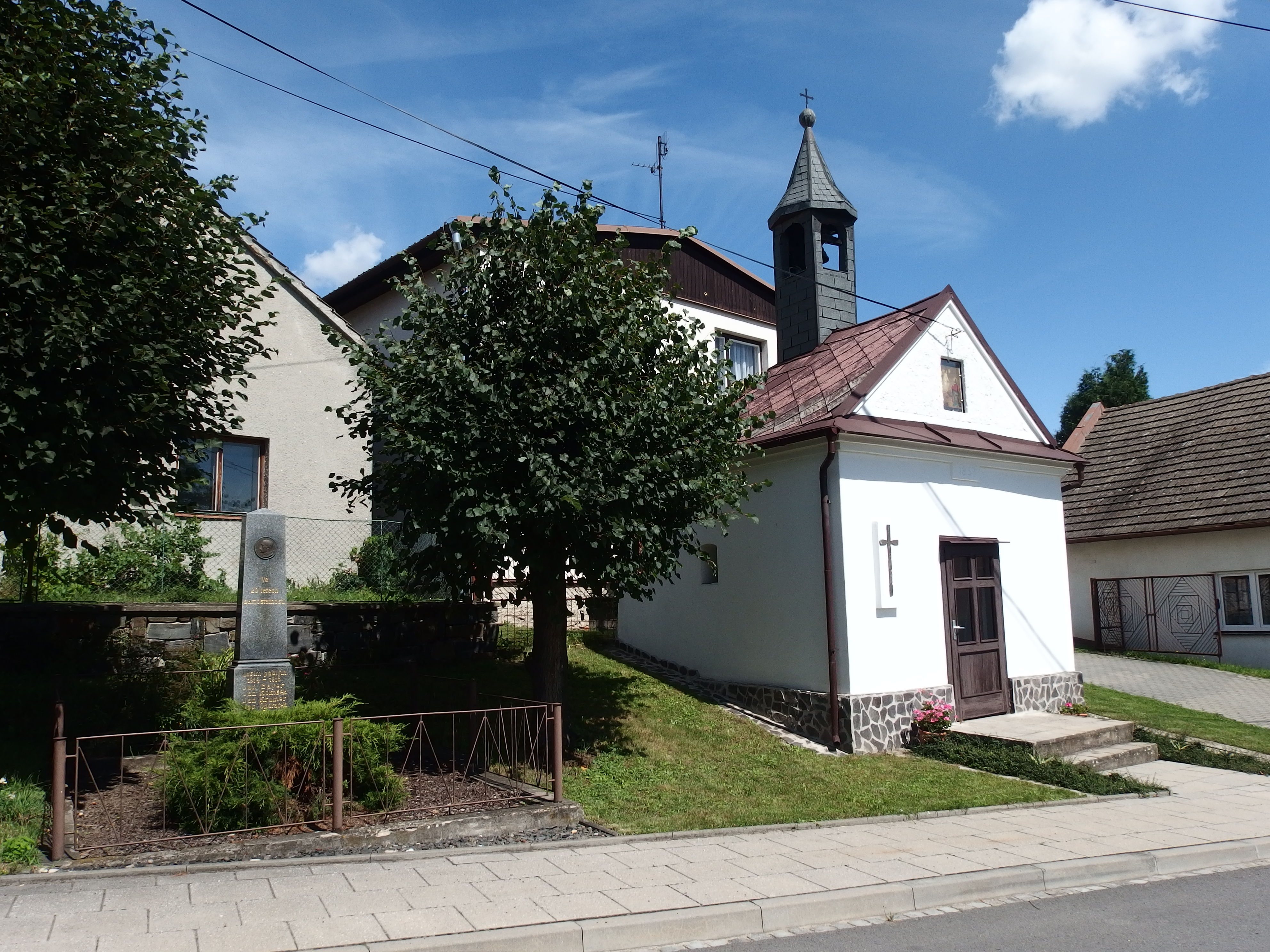 Holasovice, Opava District, Czech Republic, part Kamenec.